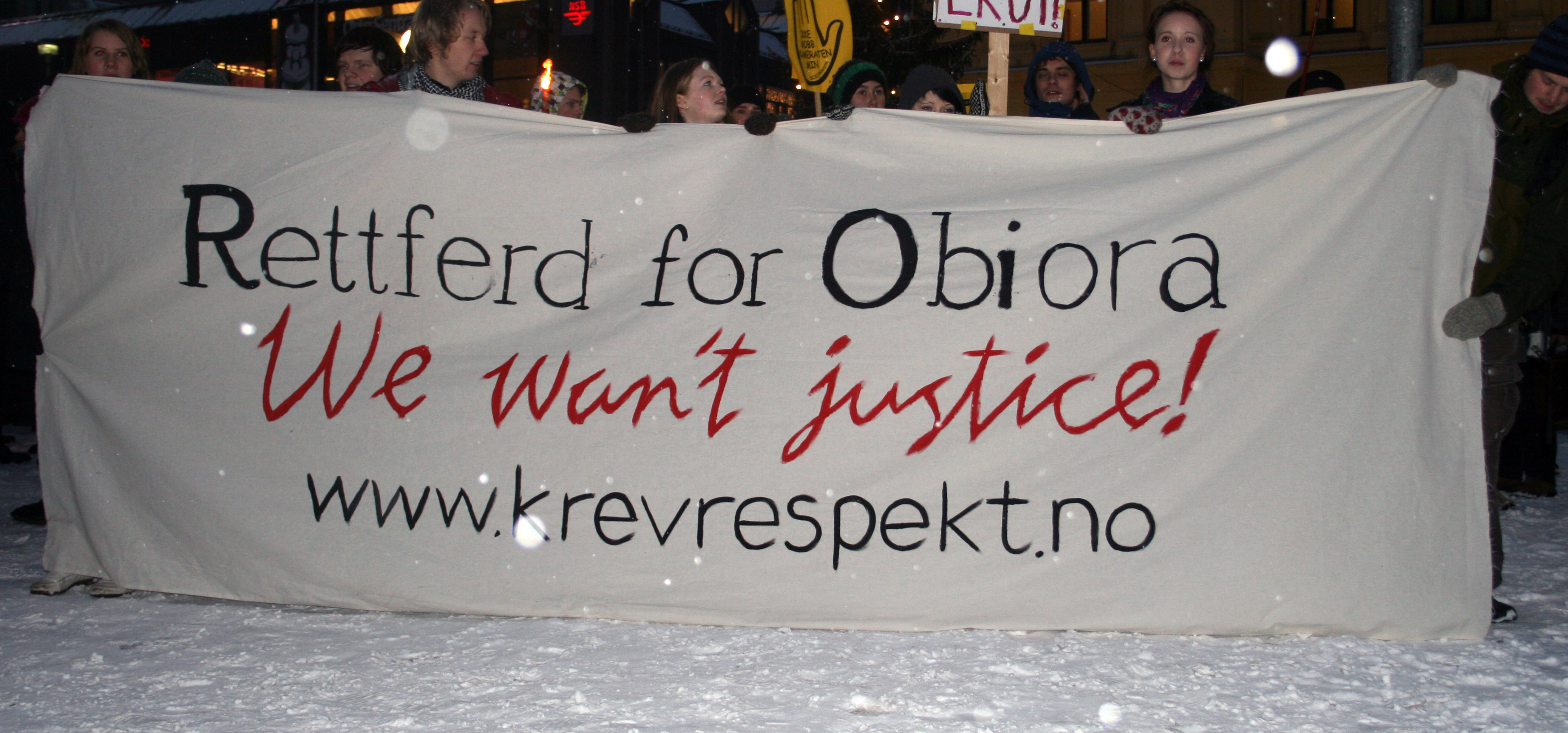 A demonstration in connection with the death of Eugene Ejike Obiora. Oslo, Norway January 2008